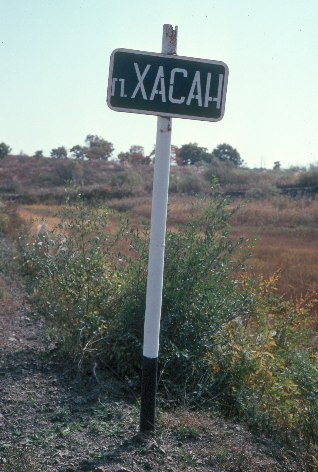 Sign outside the urban-type settlement of Khasan, near where the Battle of Lake Khasan took place in 1938.